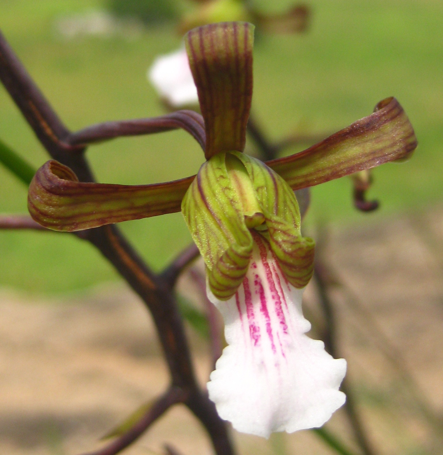 Flower of Eulophia petersii, an orchid that grows on rocky hills close to Chimoio town, Mozambique.